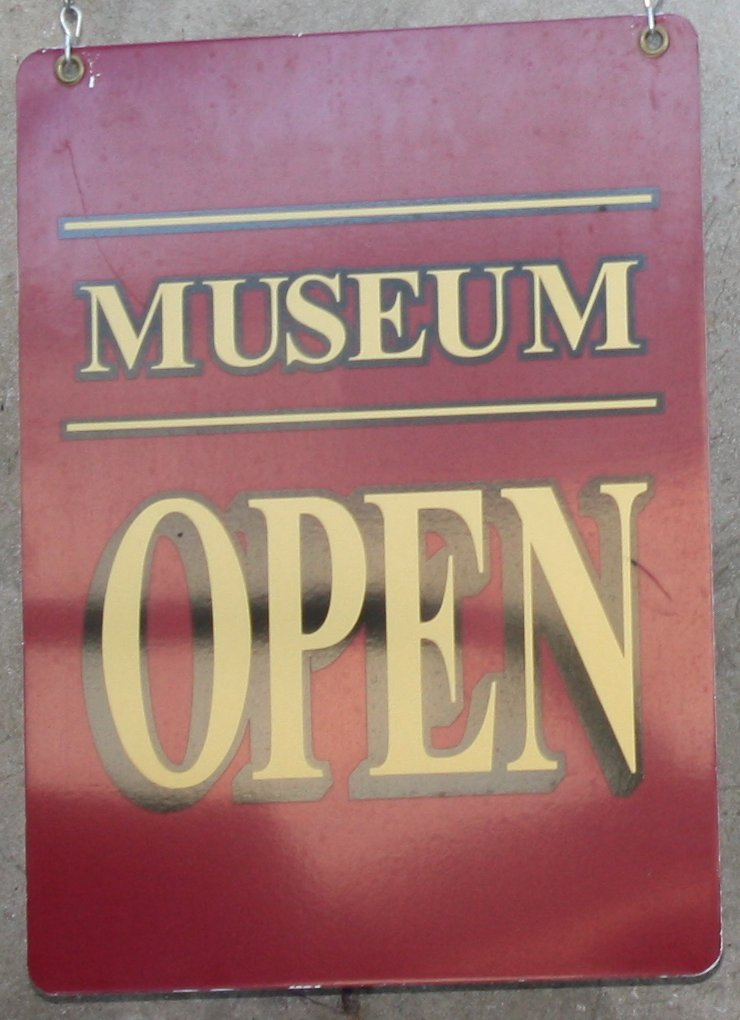 Museum Open, Lakeport Historic Courthouse Museum, Lakeport, Lake County, California